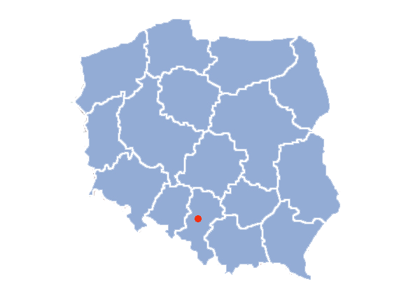 Location of Zabrze in Poland